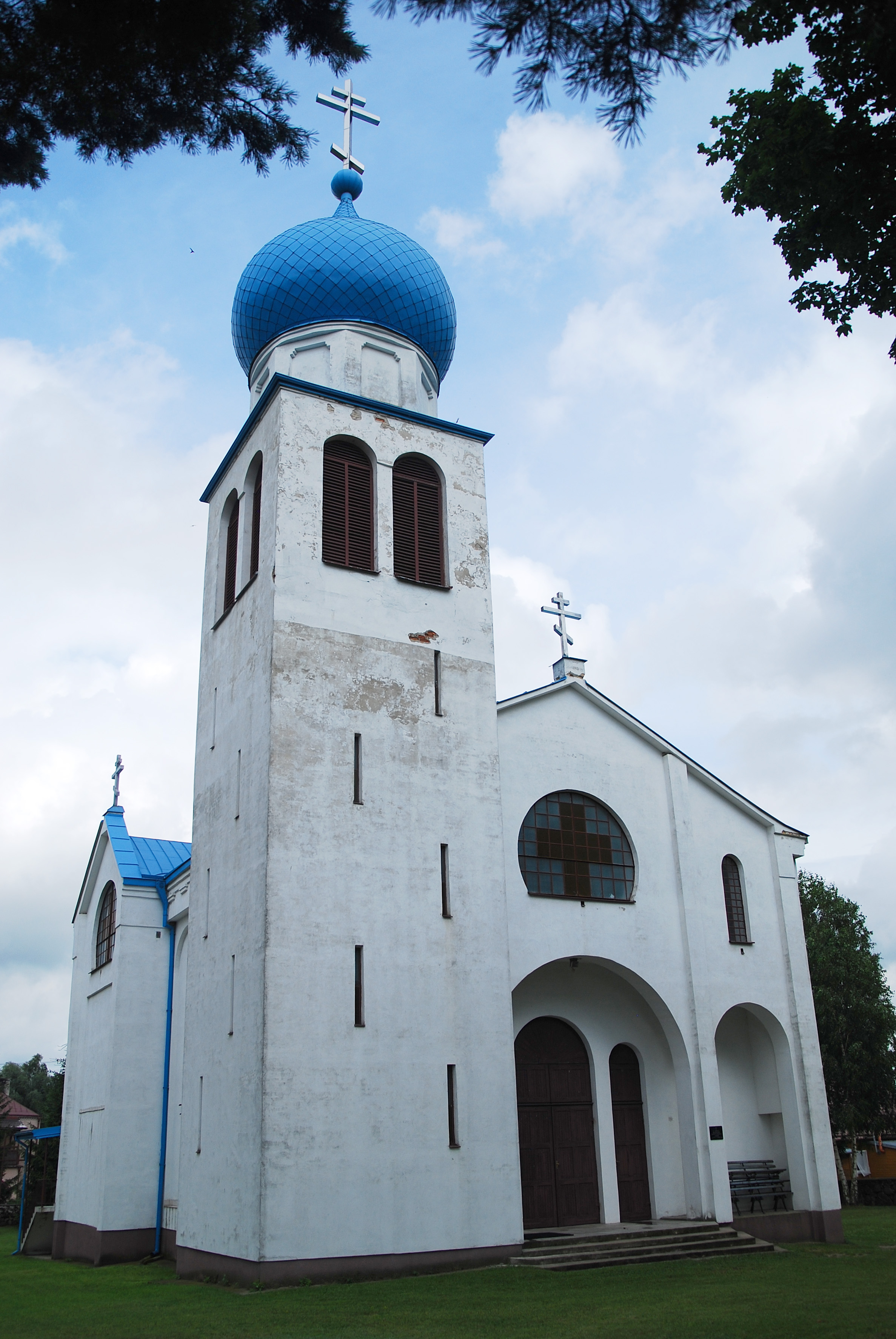 This photo from Podlaskie Voievodeship was taken during Polish Wikiexpedition 2009 set up by Wikimedia Polska Association. The making of this document was supported by Wikimedia Polska. Cerkiew Zmartwychwstania Panskiego w Jacznie